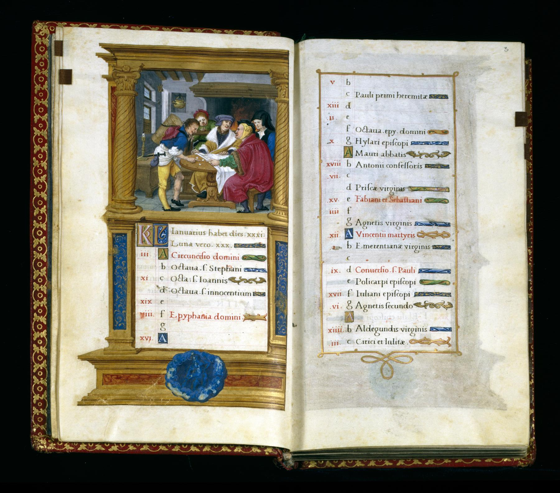 Dice players make an unexpected appearance in this calendar, for gambling is a rare theme for January. They are playing "raffle," a game won by rolling three matching numbers at once, similar to modern slot machines. There seems to be some debate over the winning throw of three 3s, for both players point at the dice, but the peddler's smile suggests he has the upper hand over his disgruntled wealthy opponent. Perhaps he is using weighted dice, a common trick still used today.